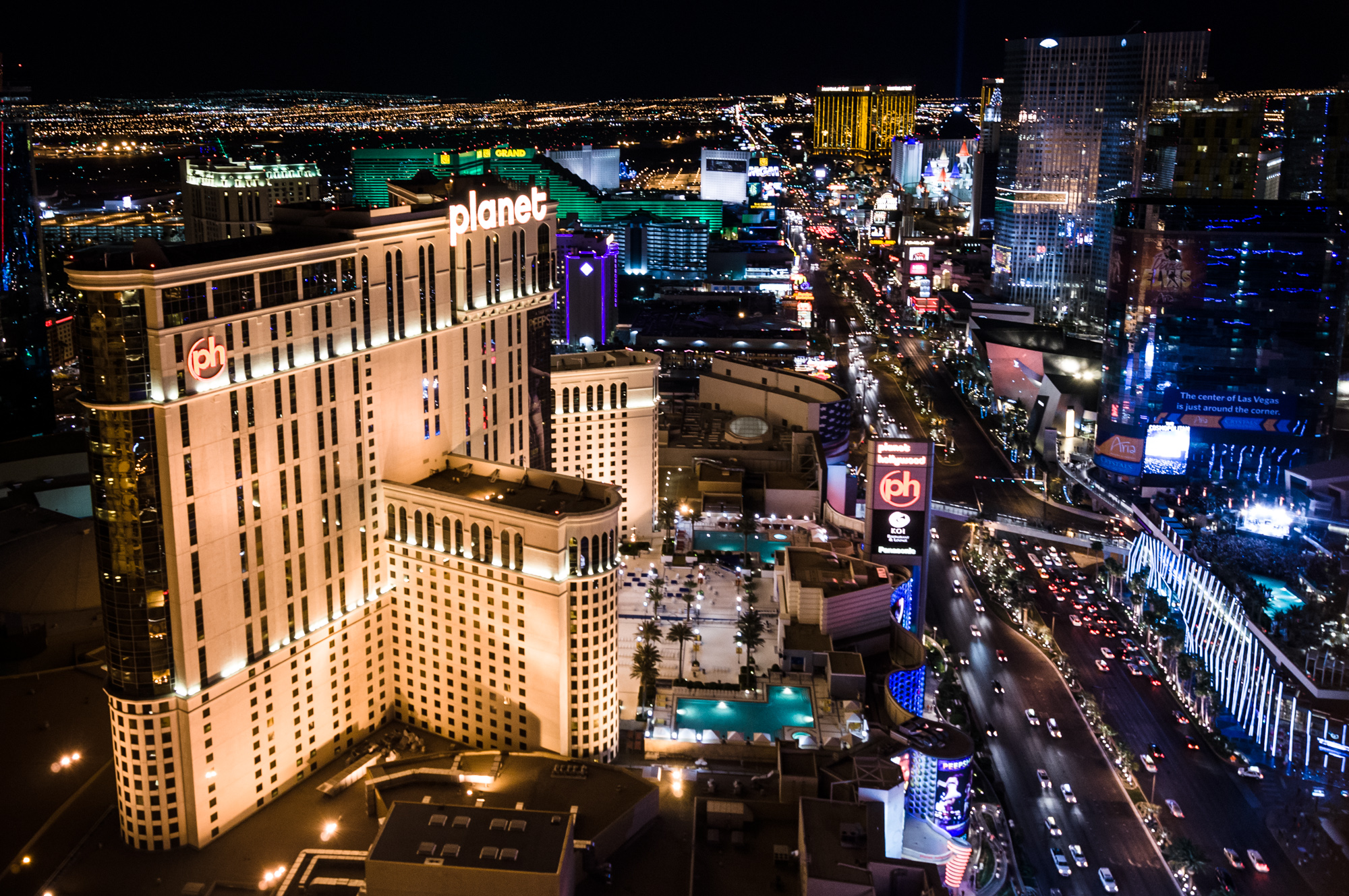 South Las Vegas Boulevard and Planet Hollywood Resort & Casino seen from Eiffel Tower by Paris Hotel, Las Vegas.